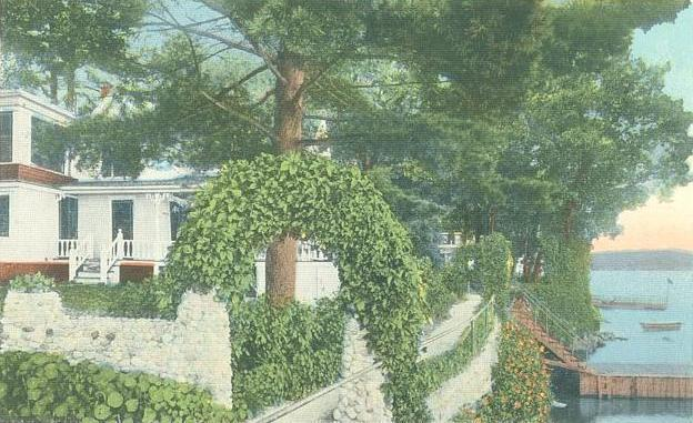 Shore Path, The Weirs, NH; from a c. 1915 postcard.